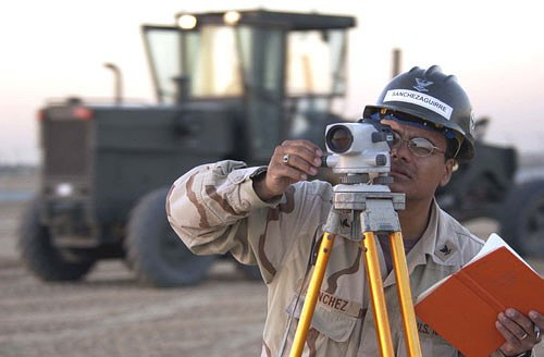 Petty Officer 3rd Class Alexander Sanchezaguirre, an engineering aide with Naval Mobile Construction Battalion 5, takes a land survey of an AH1 and CH-53 helicopter staging area for future operations in the Central Command area of operations. NMCB 5 is constructing a 500-person tent camp for future operations within the Central Command area. NMCB 5 based out of Port Hueneme, California, is currently forward deployed in support of Operation Enduring Freedom. U.S. Navy photo by Photographers Mate 1st Class Brien Aho, January 2003